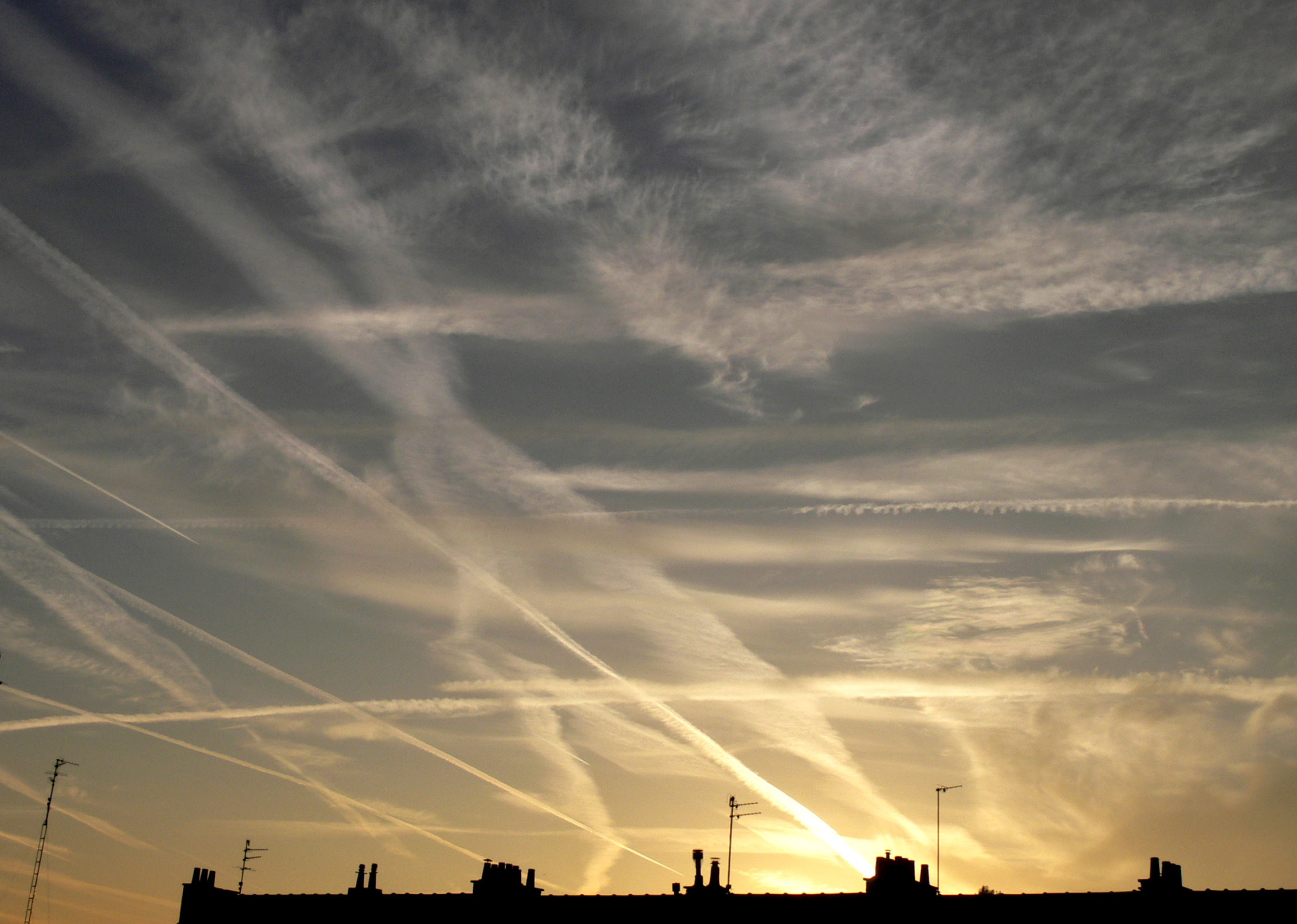 Contrails photographed from Lambersart, near Lille (North of France)